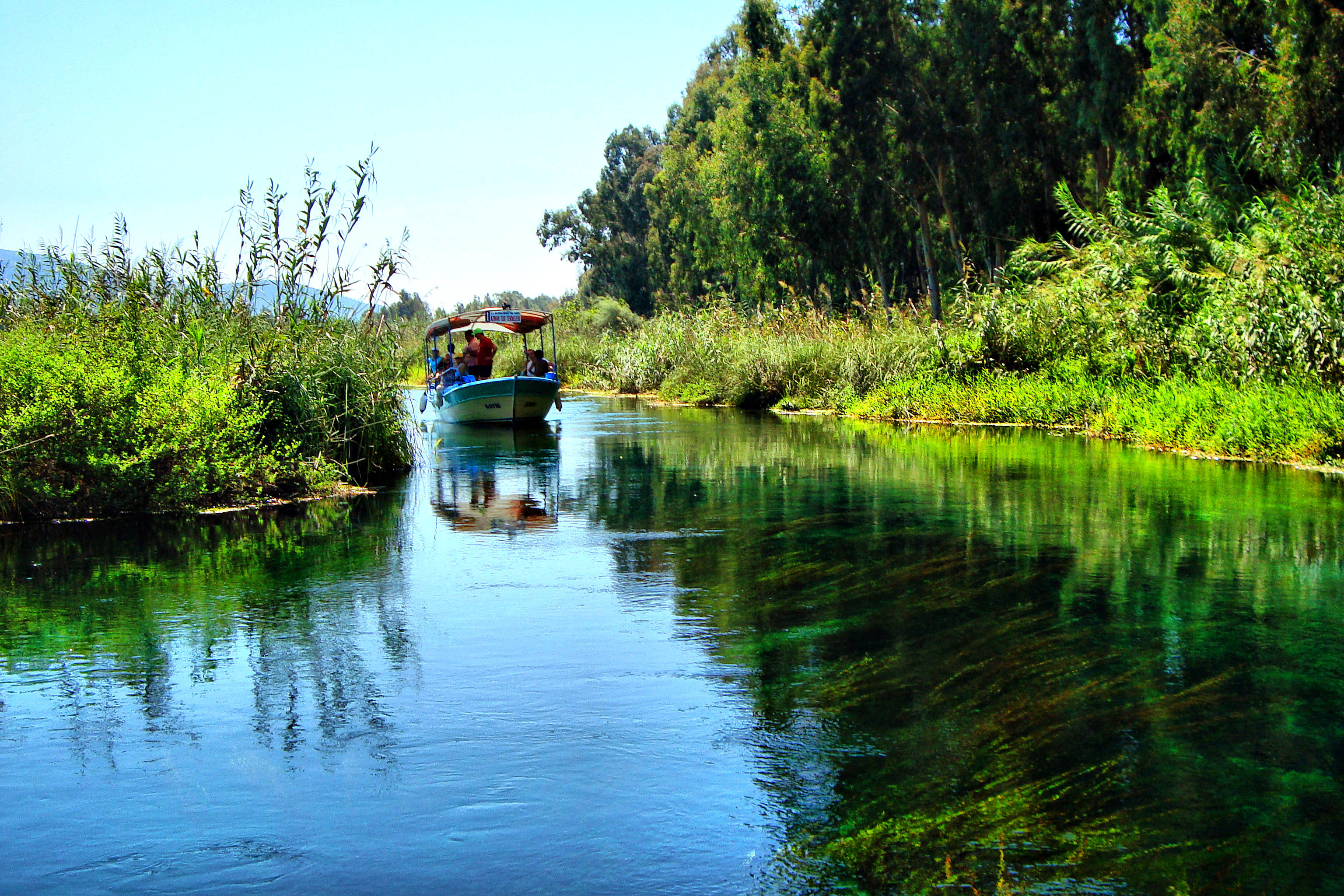 AZMAK RIVER-AKYAKA-TURKEY